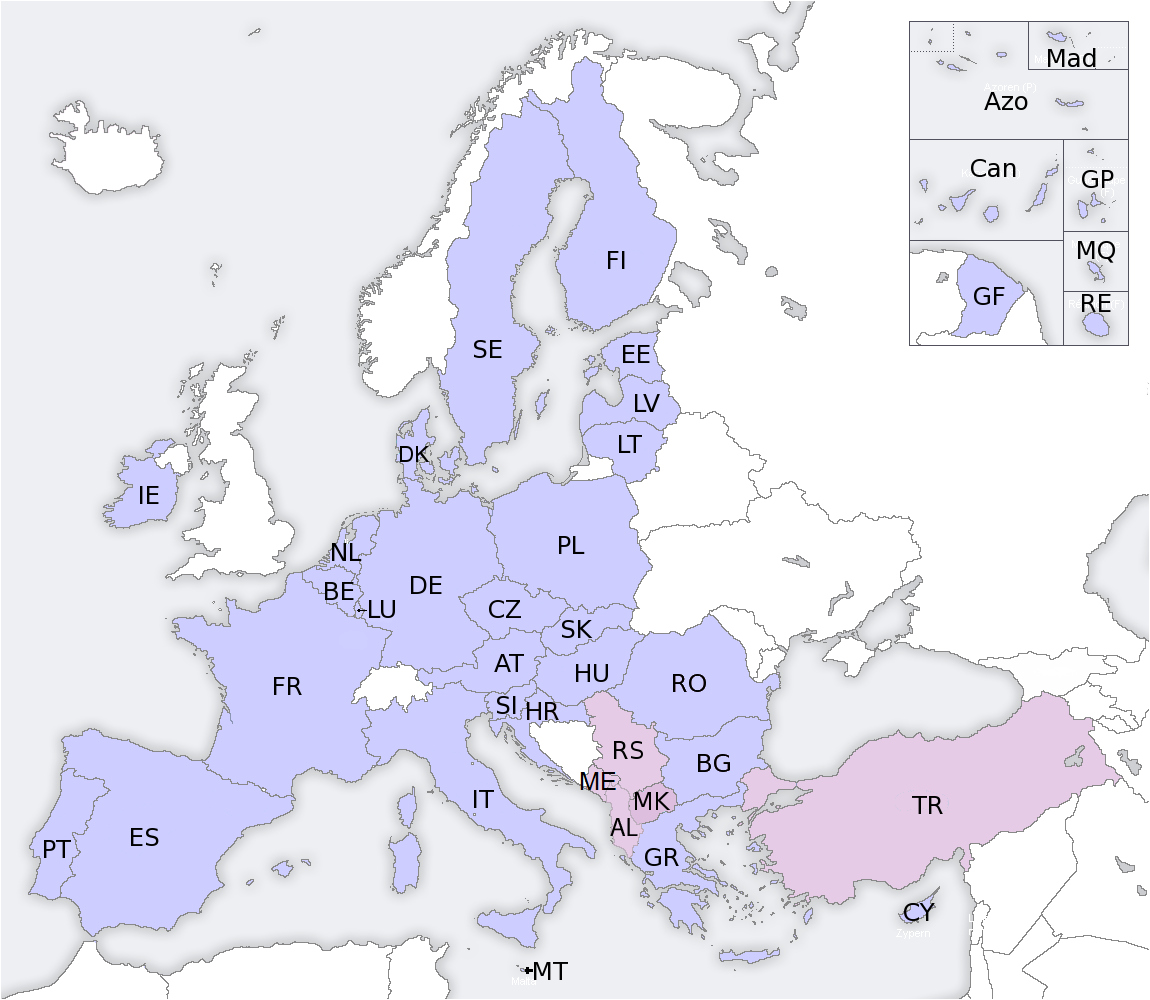 ISO 3166-1; en: Members (blue) and candidates (red) of the European Union, de: Mitgliedstaaten (blau) und Beitrittskandidaten (rot) der Europäischen Union